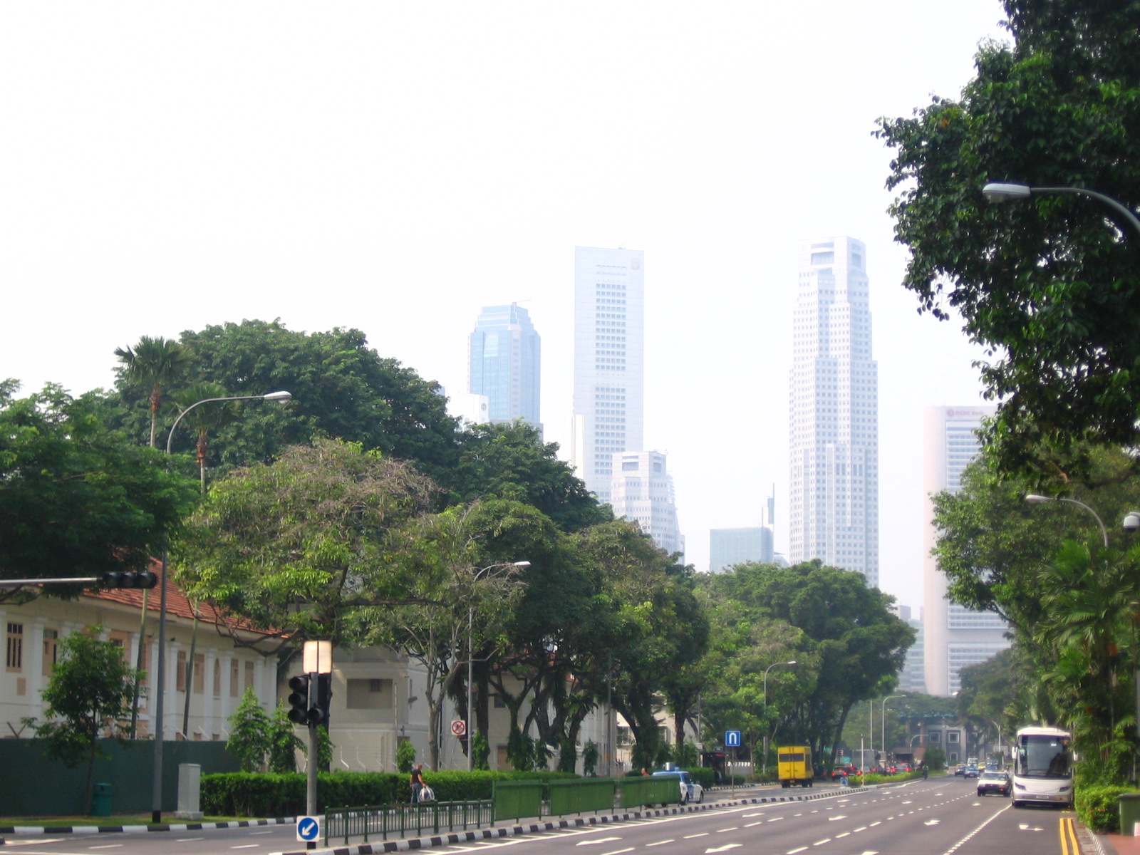 A view of South Beach and Beach Road, Singapore.